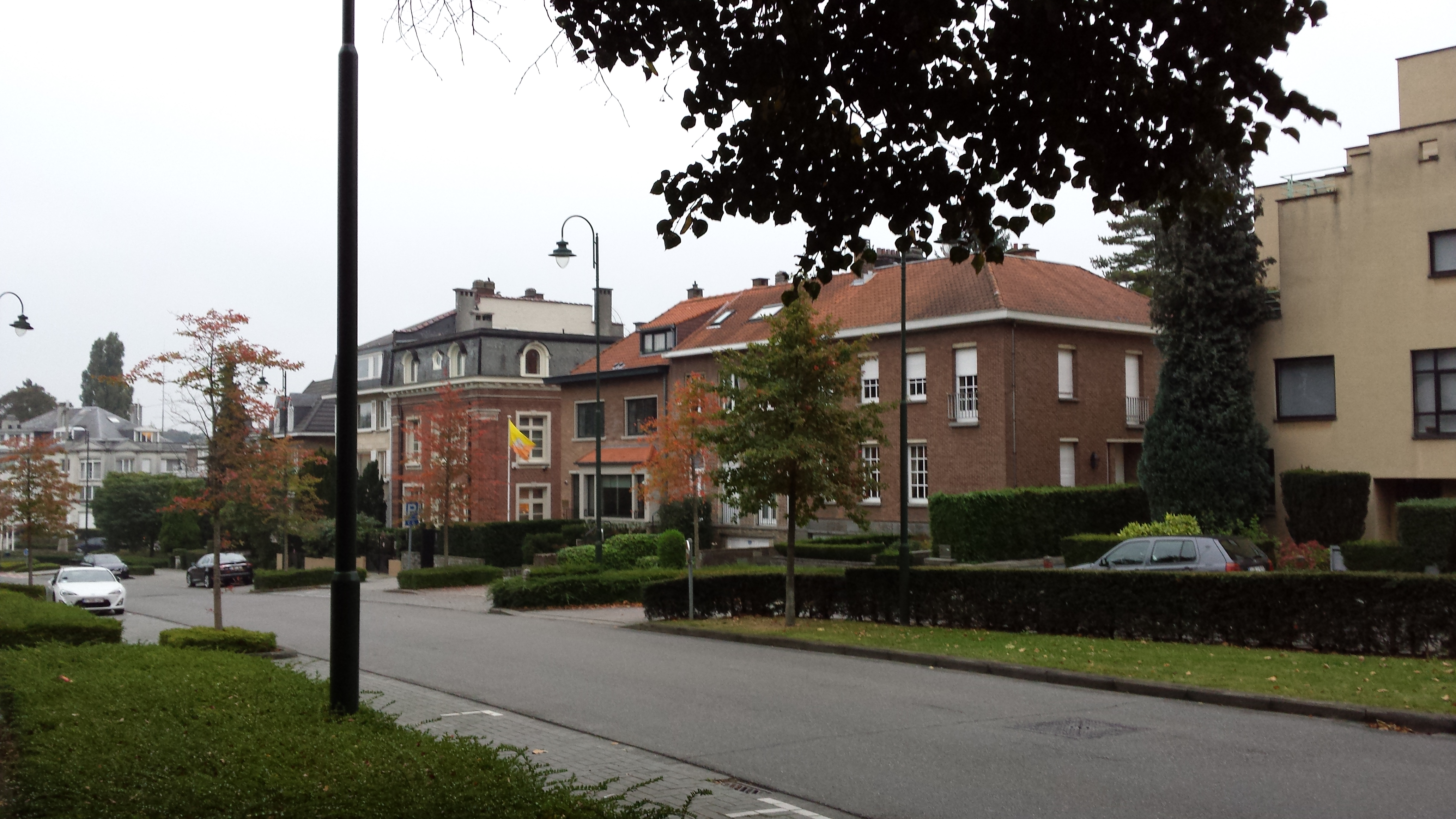 Embassy of the Kingdom of Bhutan in Brussels